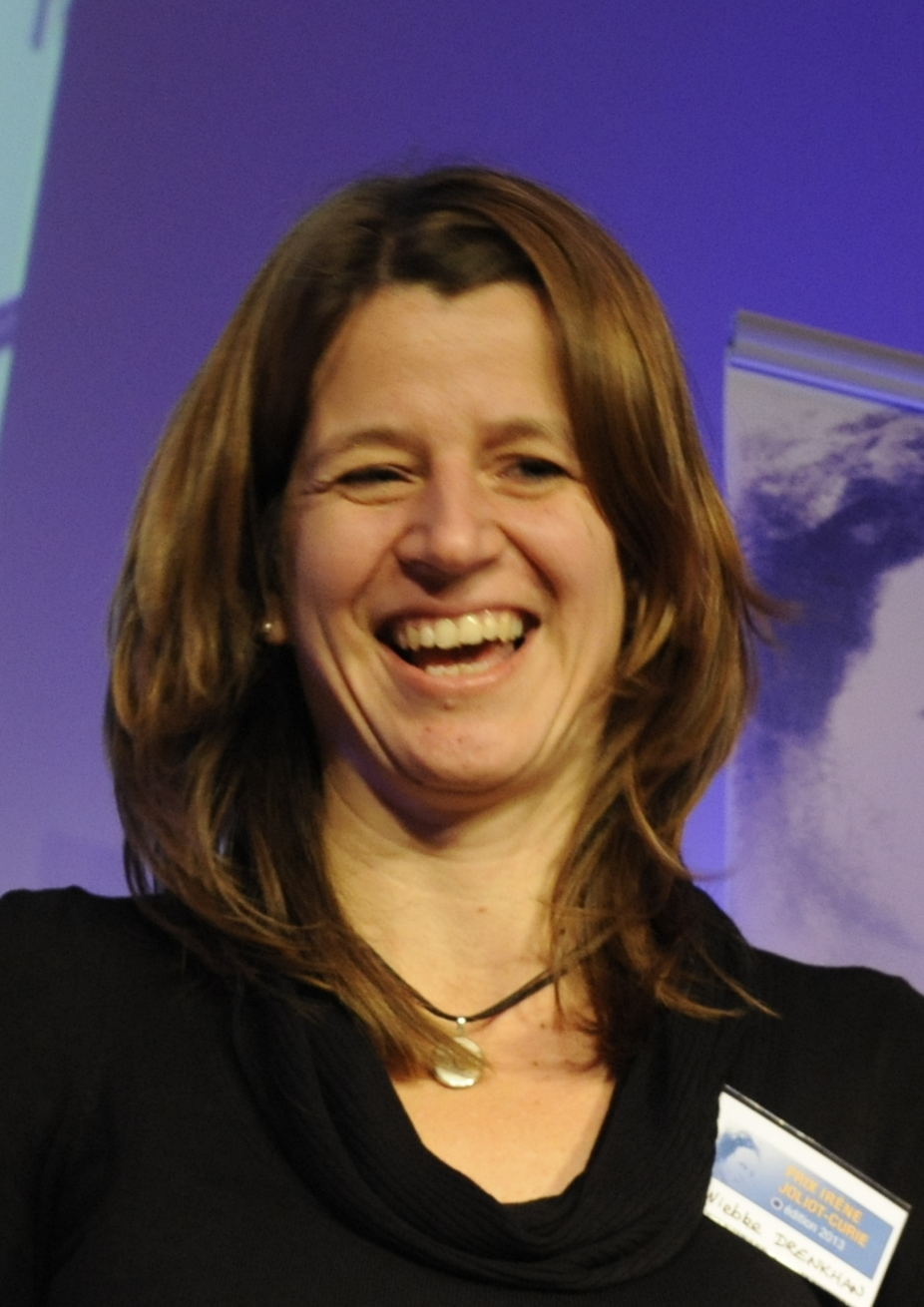 French physicist Wiebke Drenckhan receiving the 2013 Irène-Joliot-Curie award.